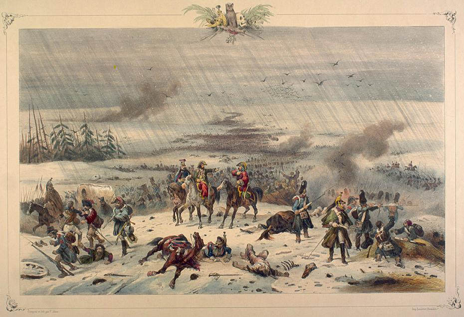 The retreat of Napoleon from Russia, 3 November 1812.